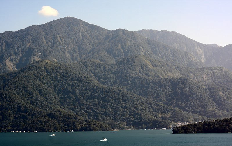 Shueishe Mountain is situated besides Sun Moon Lake.